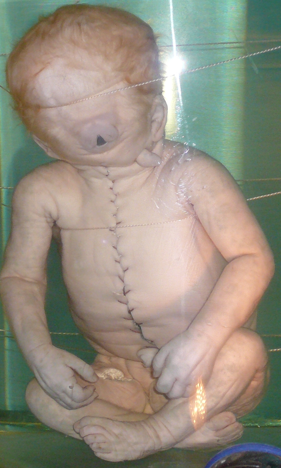 Cyclopia. Photo of a visiting exhibit from St. Petersburg's Kunstkamera ("Cabinet of Curiosities"). Taken in Sevastopol, 2009.